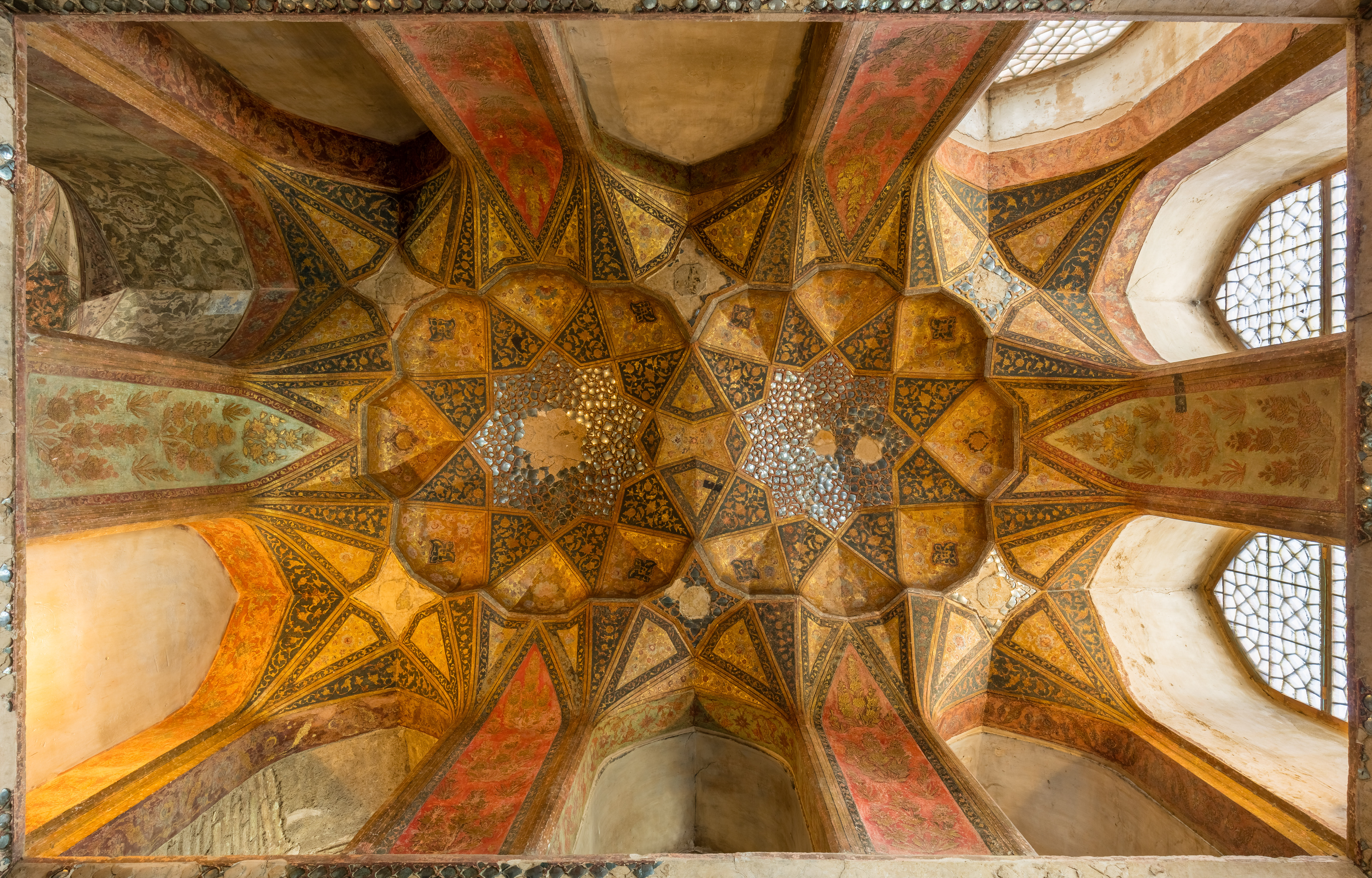 Ceiling in one of the rooms of Hasht Behesht, Isfahan, Iran. The palace, built in 1669, and which name means "Eight Heavens" is the only one left today out of forty mansions that existed during the rule of Safavids.